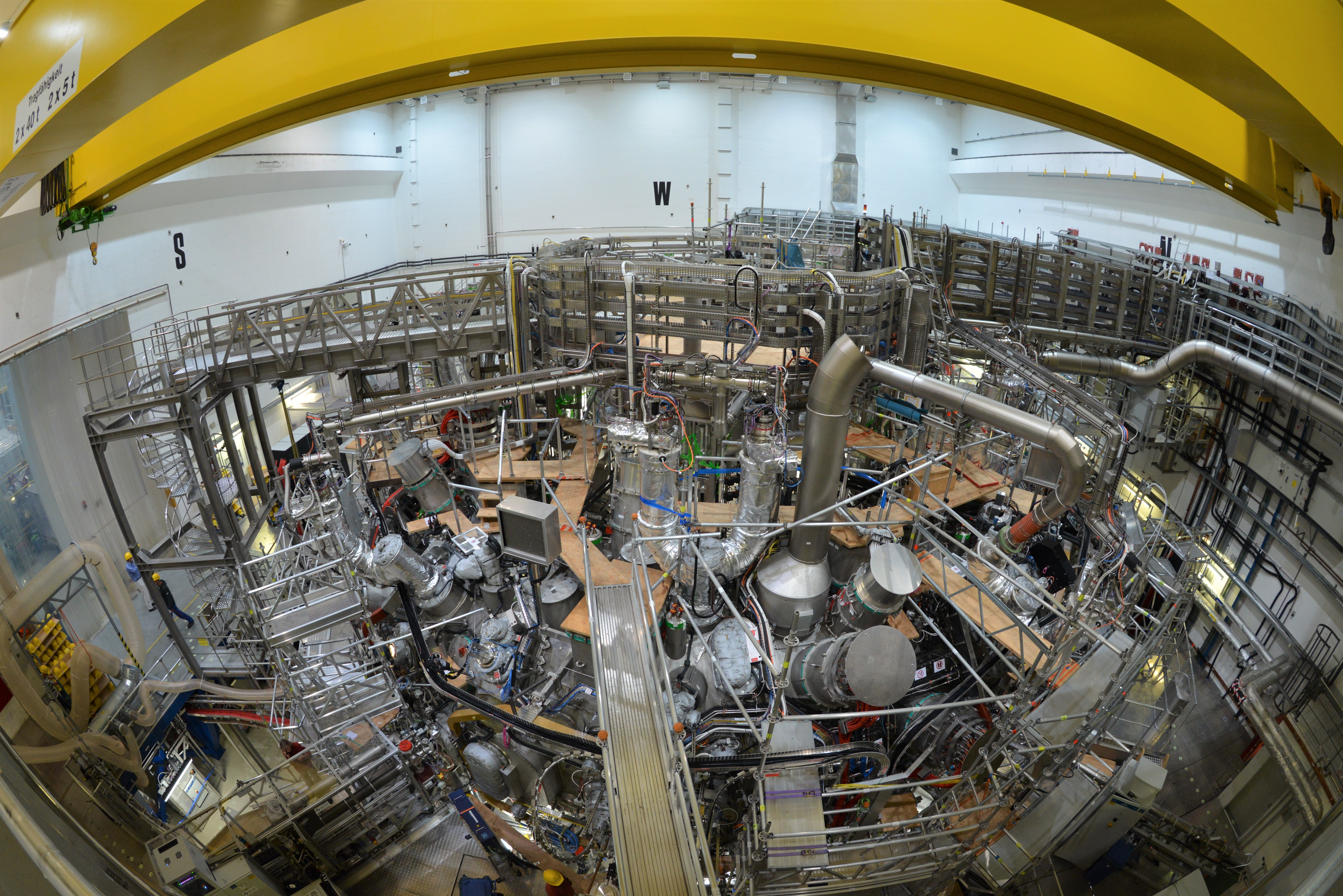 W7-X during 2018